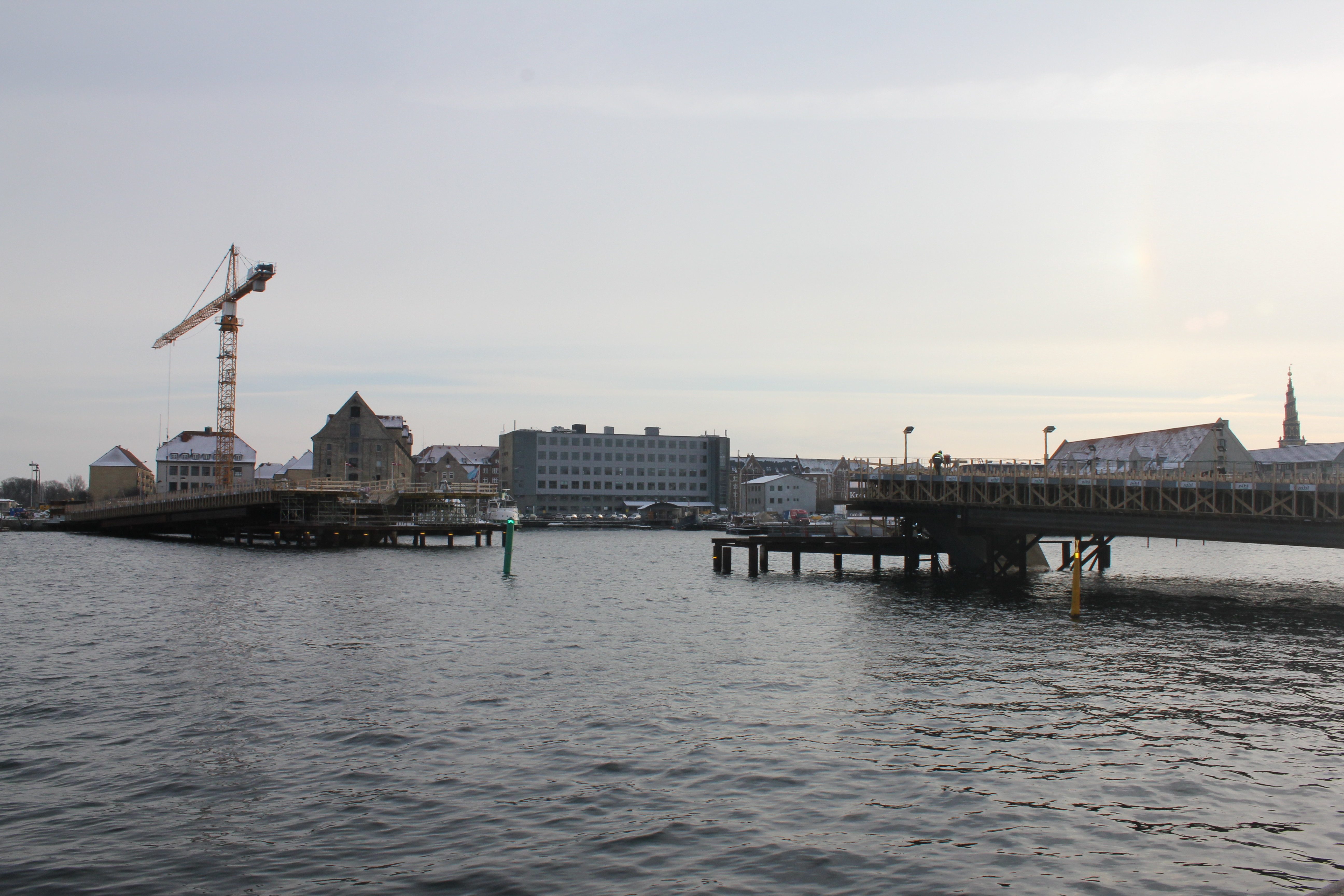 Inderhavnsbroen in Copenhagen under construction.